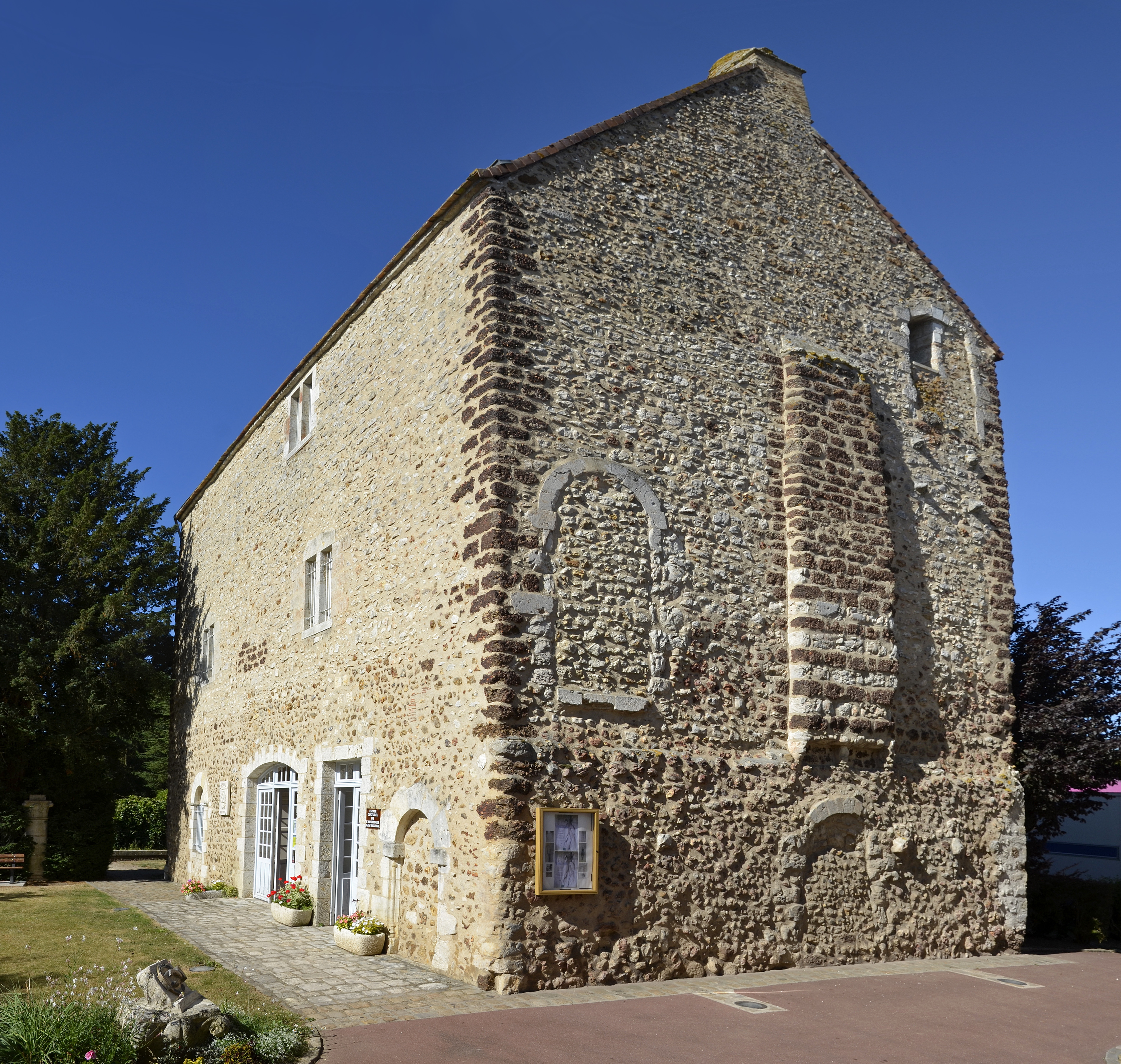 Former hall of justice (XIIIth century) - Bonneval, Eure-et-Loir .